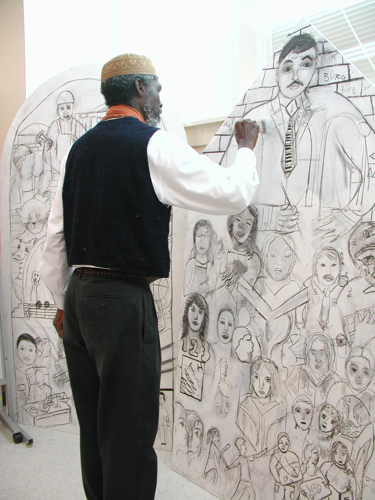 Artist TJ Reddy works on a mural at Piedmont Middle School in Charlotte, North Carolina.